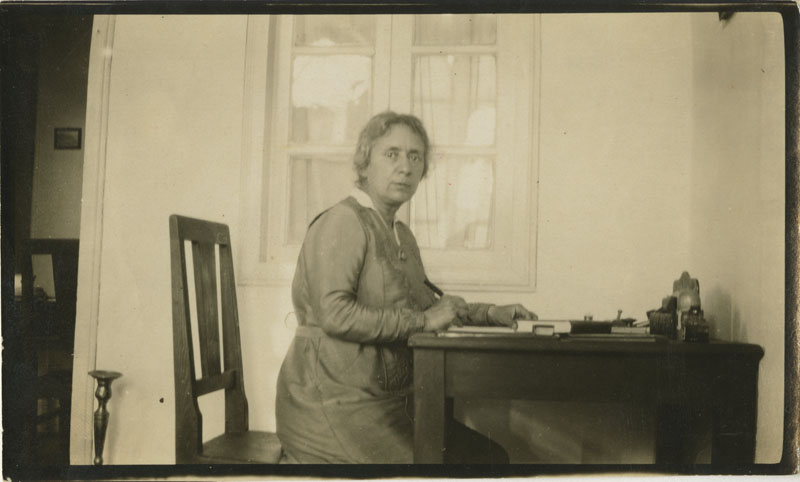 Description: Henrietta Szold at home, Jerusalem Creator/Photographer: Unknown Medium: Black and white photographic print Dimensions: 8 x 13 centimeters Date: circa 1922 Persistent URL: Call Number: Record Group 18, Box 1 Folder 7 Repository: Hadassah Archives, housed at the American Jewish Historical Society, 15 West 16th Street, New York, NY 10011 Rights Information: No known copyright restrictions; may be subject to third party rights. For more copyright information, click here. See more information about this image and others at CJH Digital Collections. Digital images created by the Gruss Lipper Digital Laboratory at the Center for Jewish History.